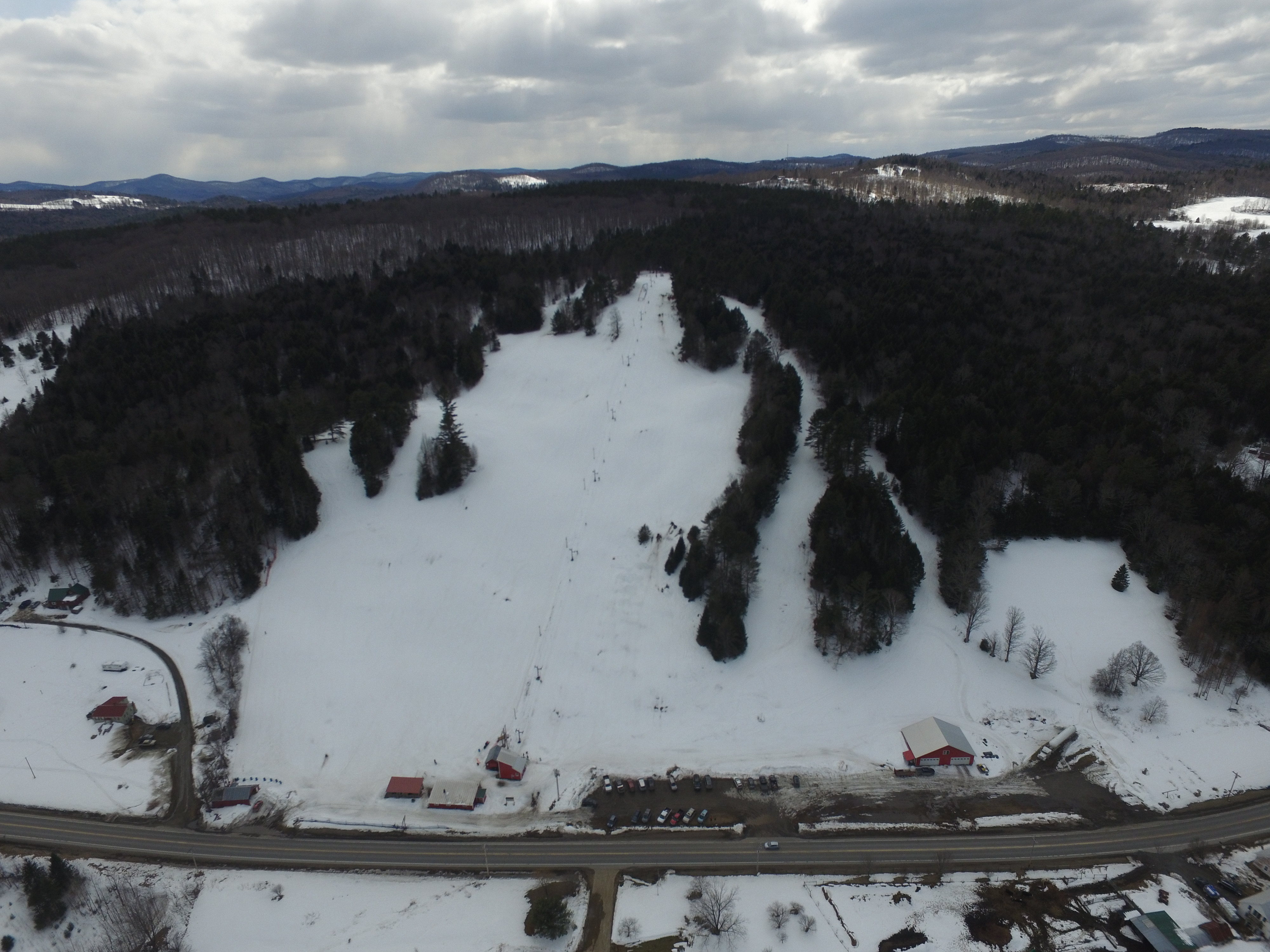 Aerial photo of the Northeast Slopes ski area in Corinth, Vermont